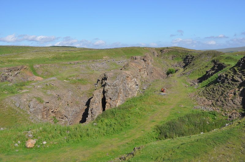 Slitt Vein, Data from Geograph: Description: From the road. The slitt vein is an exposed vein composing of worthless quartz. However in the middle was lead which has been extracted. The percolating fluids altered the surrounding limestone to form limonite (hydrated... more ICBM: 54.747765929785, -2.1400933024093 Location: (about 1 km from) near to Westgate, County Durham, Great Britain.